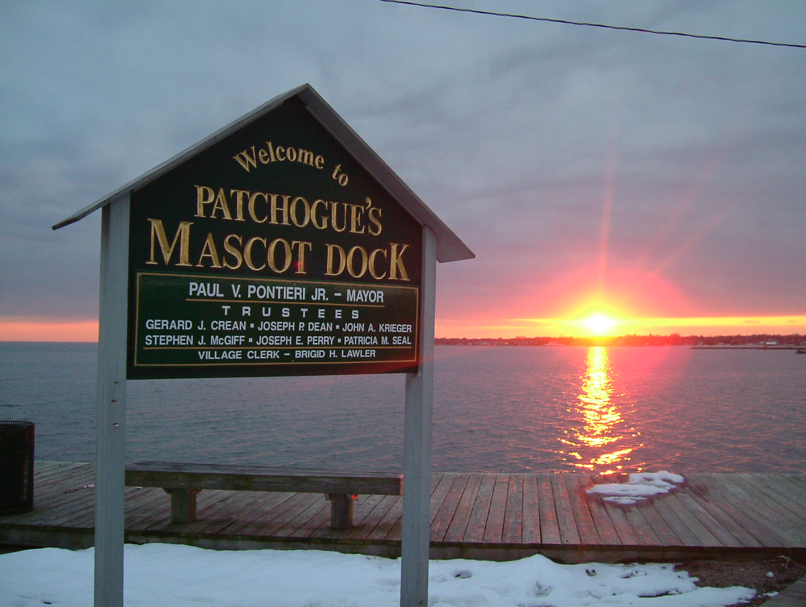 Mascot Dock- Patchogue, NY... Stevan